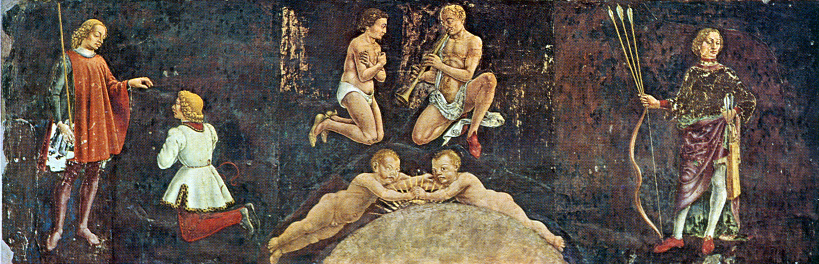 various Ferrarese artist Allegory of May Fresco Palazzo Schifanoia, Ferrara